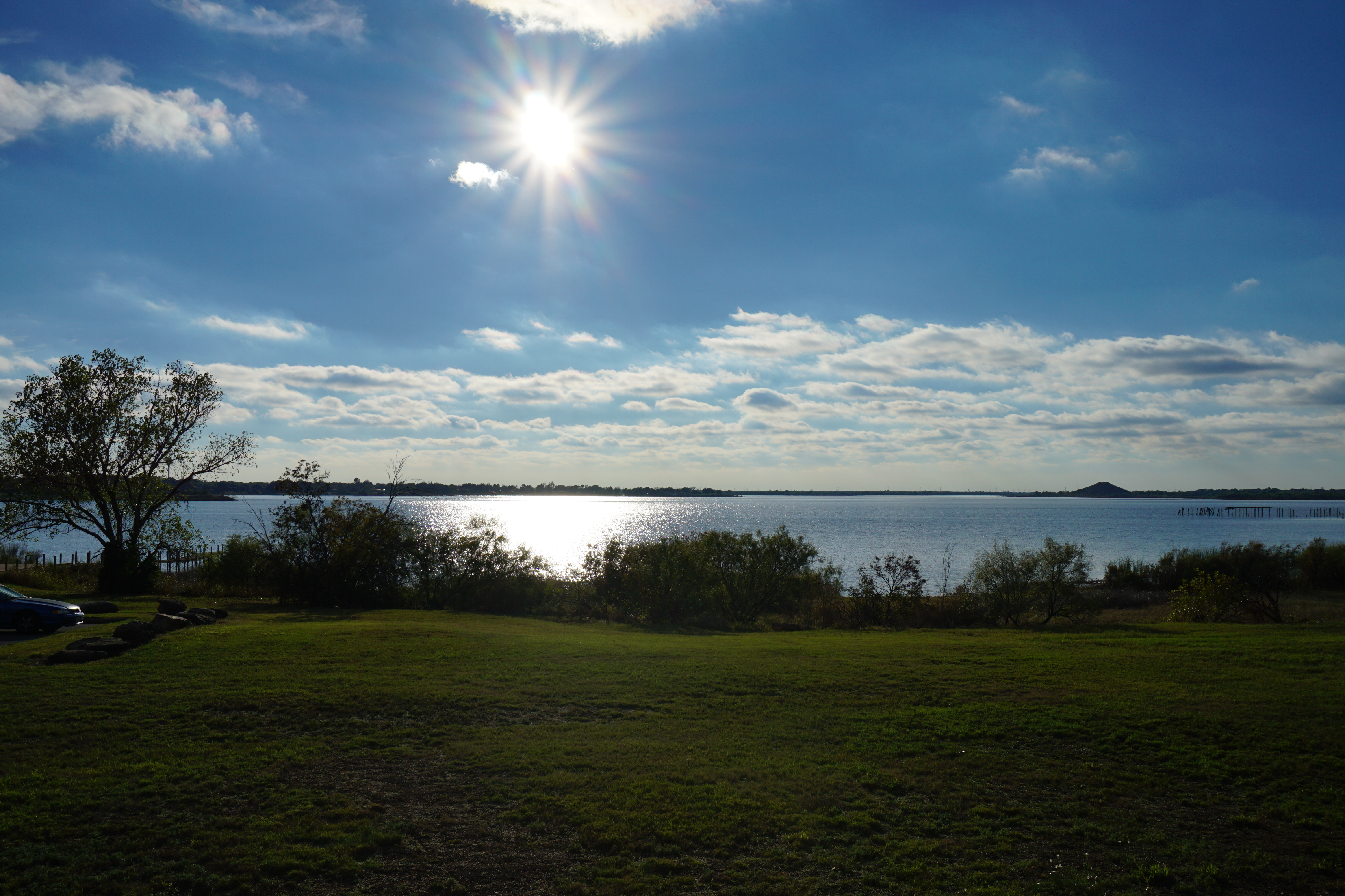 A view of Lake Wichita from Wichita Falls, Texas (United States).